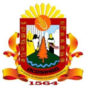 Escudo de La Ciudad De Ocosingo